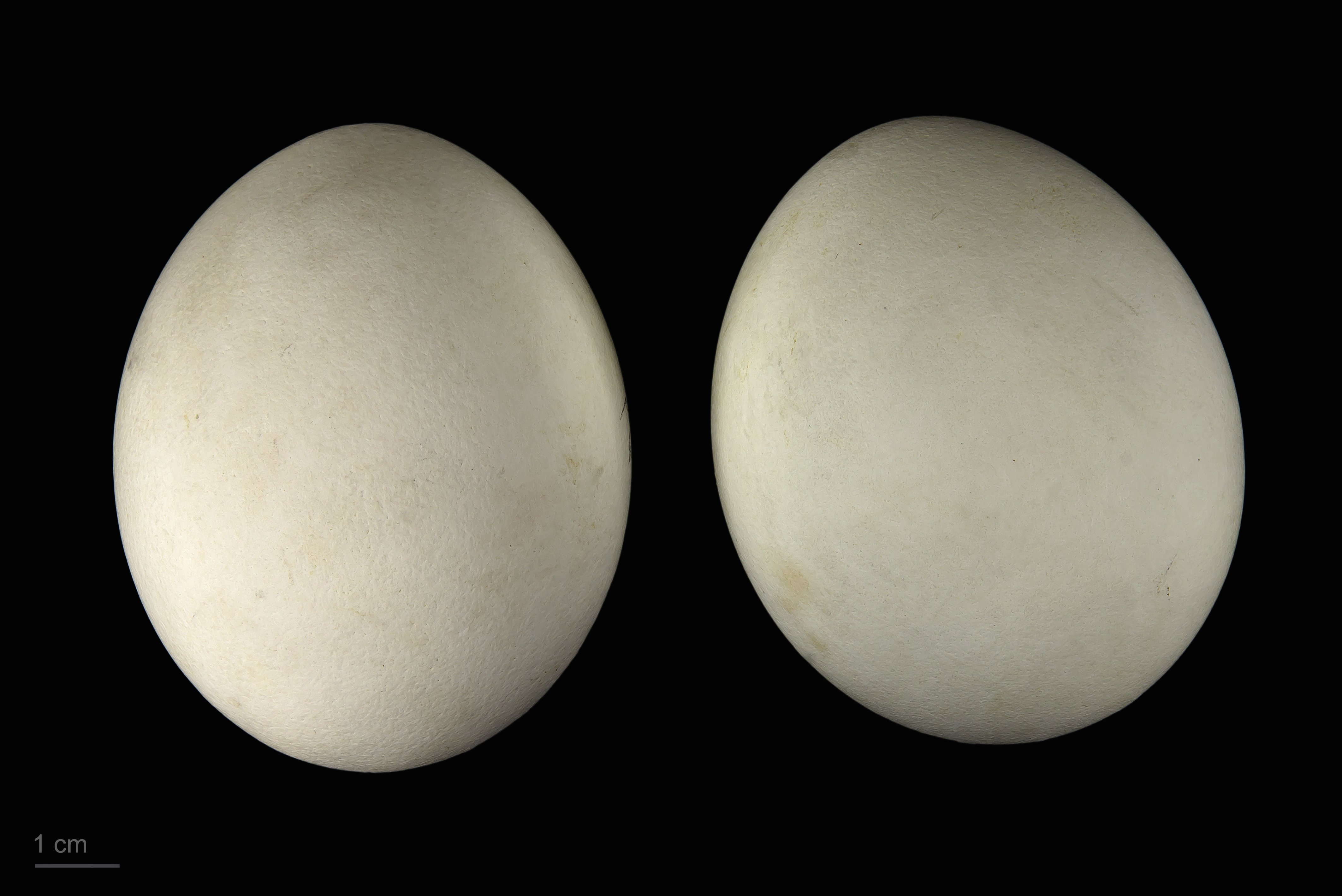 Eggs of bald eagle Two specimens of the same spawn ; collection of Jacques Perrin de Brichambaut.